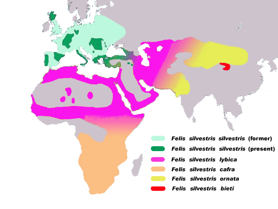 map of Felis silvestris subspecies, according to a DNA analysis published in Science (29 june 2007) : « The Near Eastern Origin of Cat Domestication ».